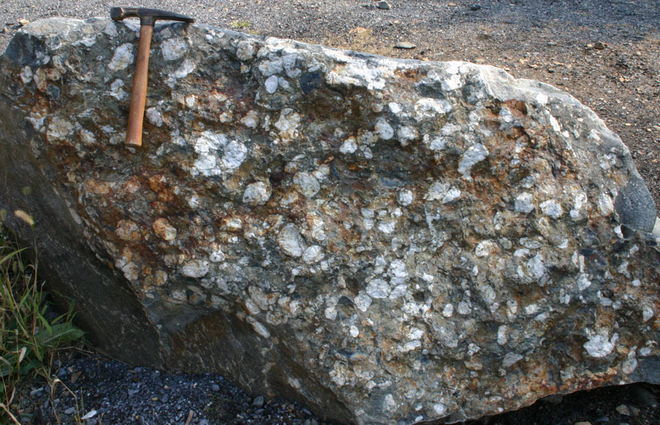 Boulder of conglomerate with cobble-sized clasts. Rock hammer for scale. Probably from the Shawangunk Formation. Taken by Jim Stuby (talk) 00:47, 13 October 2008 (UTC) at Lehigh Gap, PA, at 2006 Highway Geology Symposium.